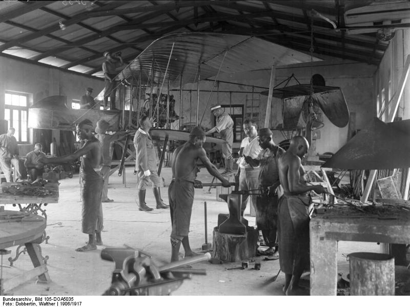 Bruno Büchner's prewar Otto / AGO pusher biplane in repair